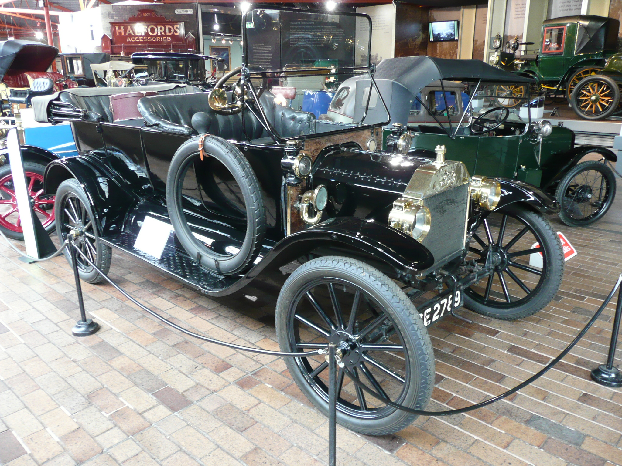 1914 Ford Model T, National Motor Museum in Beaulieu.